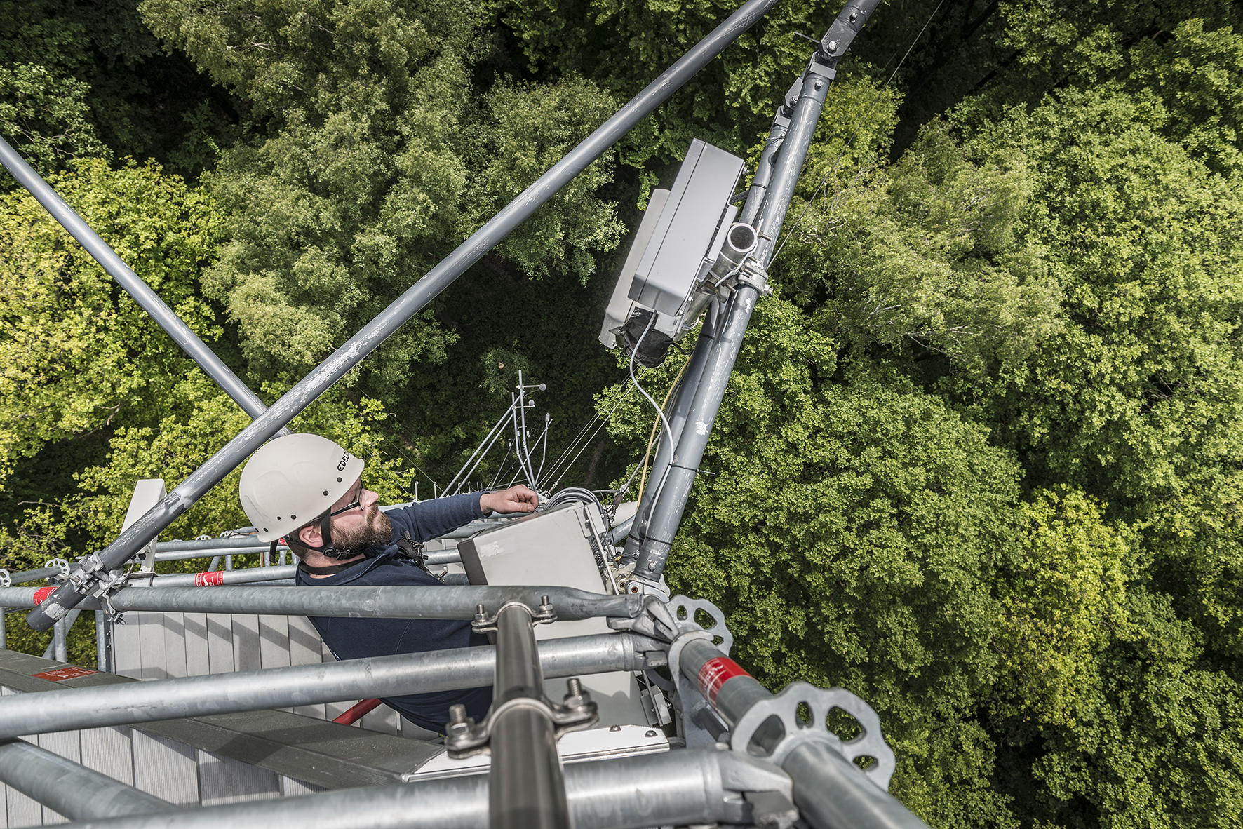 Forest Climate Observatory near Magdeburg, Germany; data retrieval